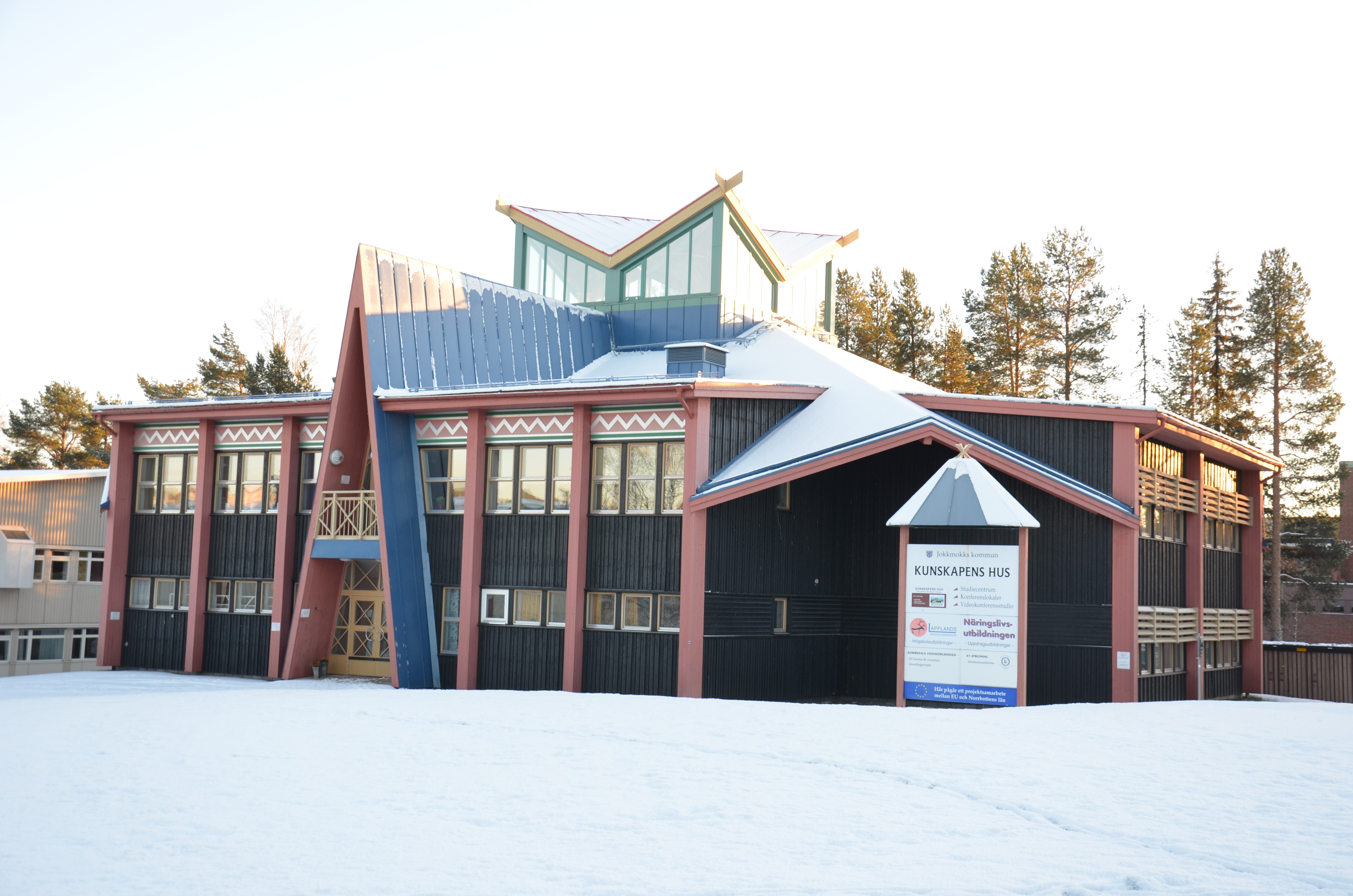 Kunskapens Hus, Storgatan i Jokkmokk